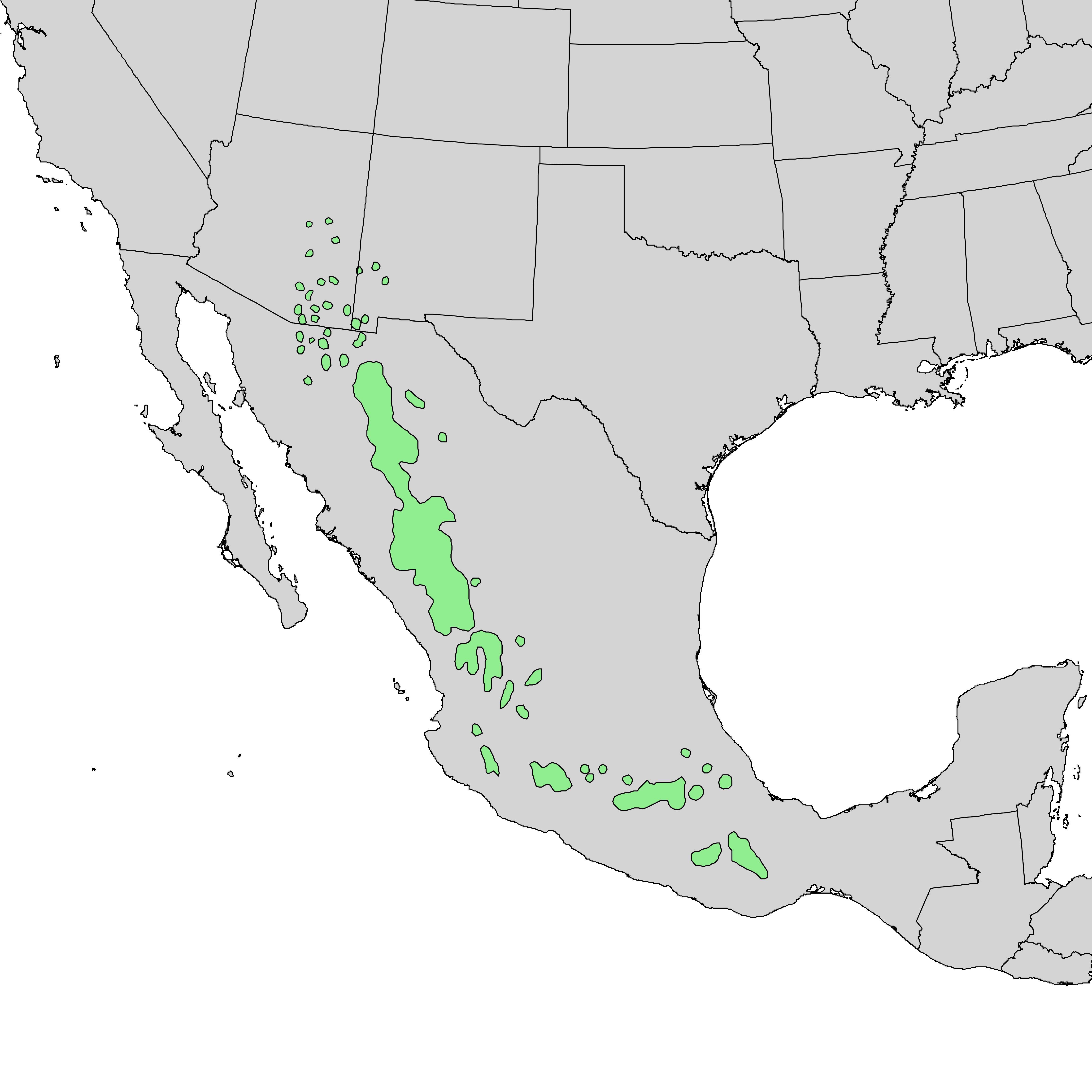 Natural distribution map for Pinus leiophylla